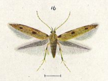 Fig 19. Circoxena ditrocha Plate XXVIII The butterflies & moths of New Zealand